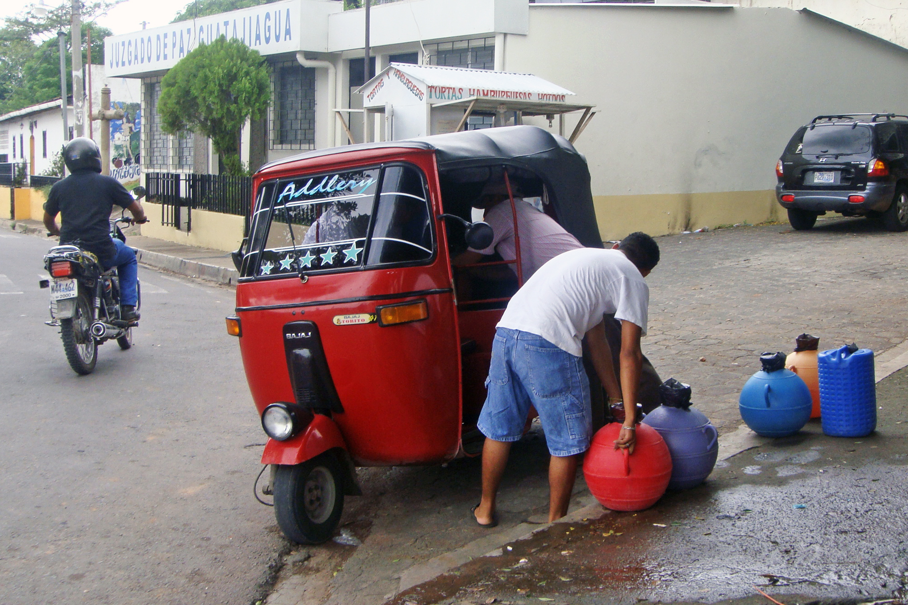 Bajaj mototaxi in El Salvador